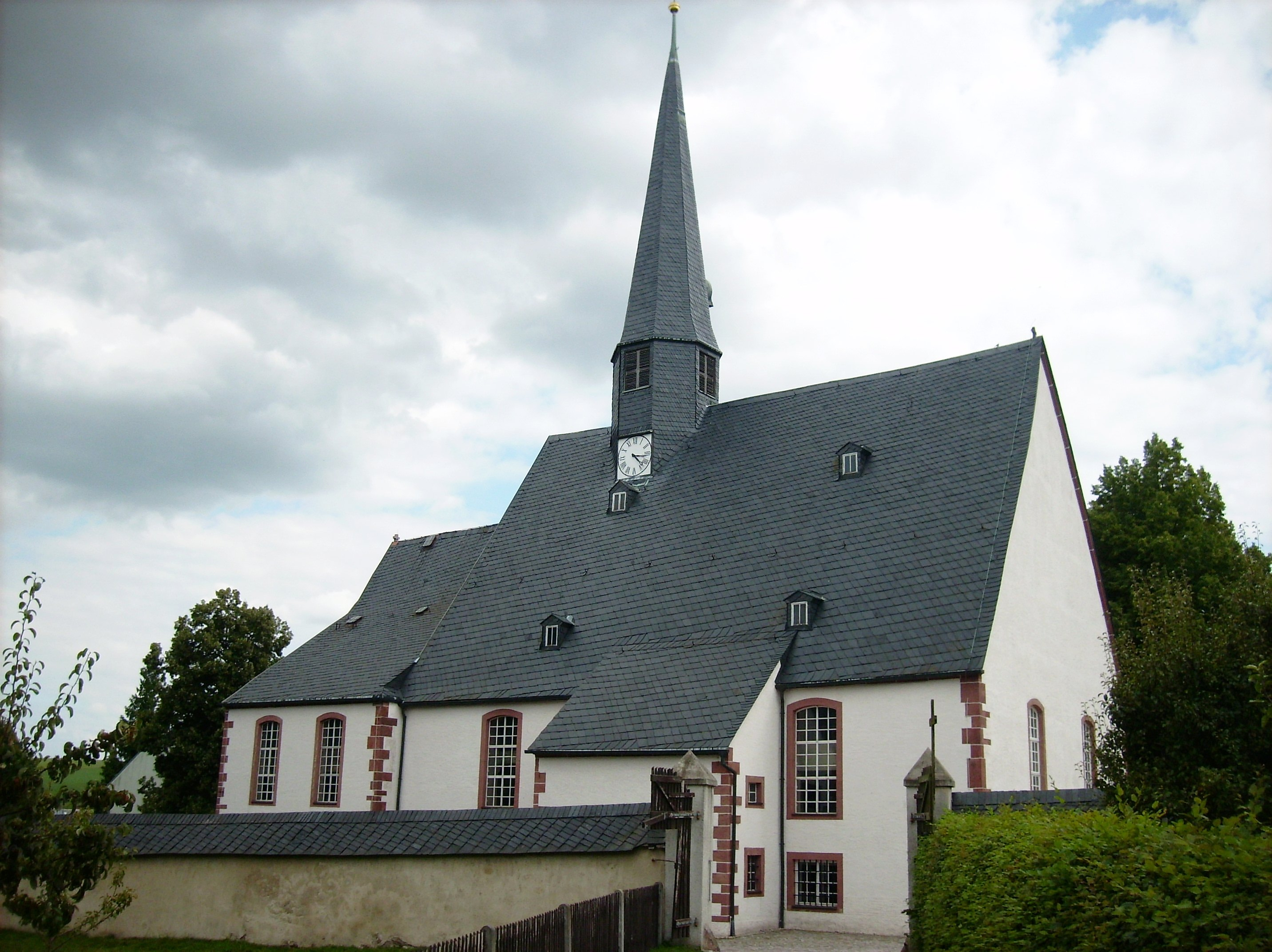 Claussnitz church (Mittelsachsen district, Saxony)